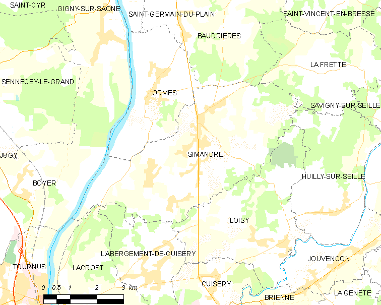 Map of French municipality